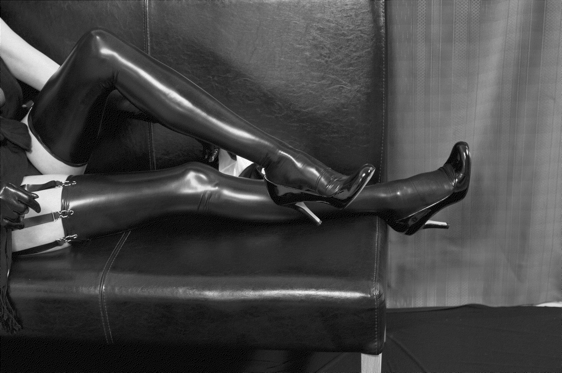 Black Latex Stockings